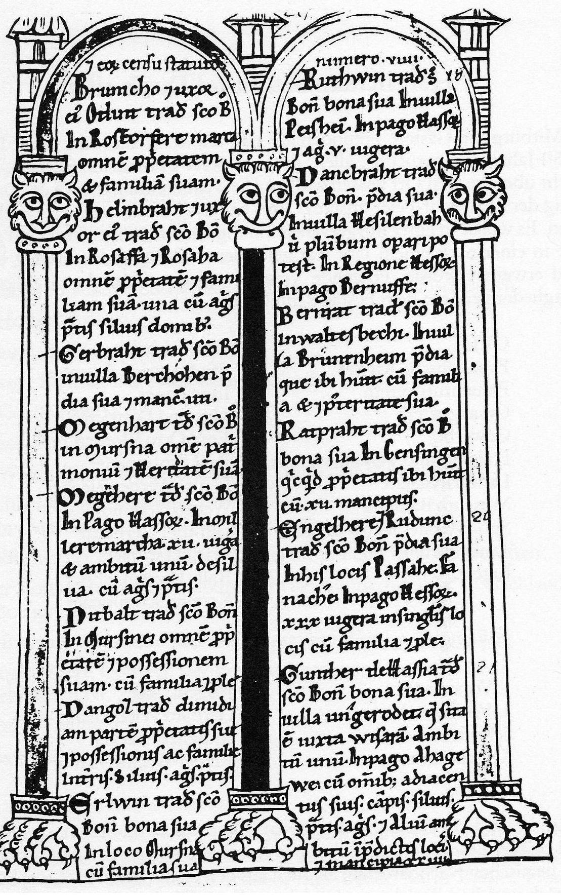 Deed of donation of the monastery “Fulda” from 802 (term of abbot RATGAR)